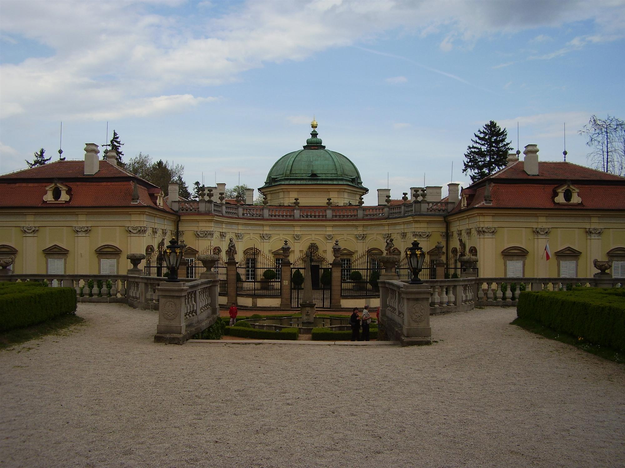 Castle Buchlovice in Zlín Region